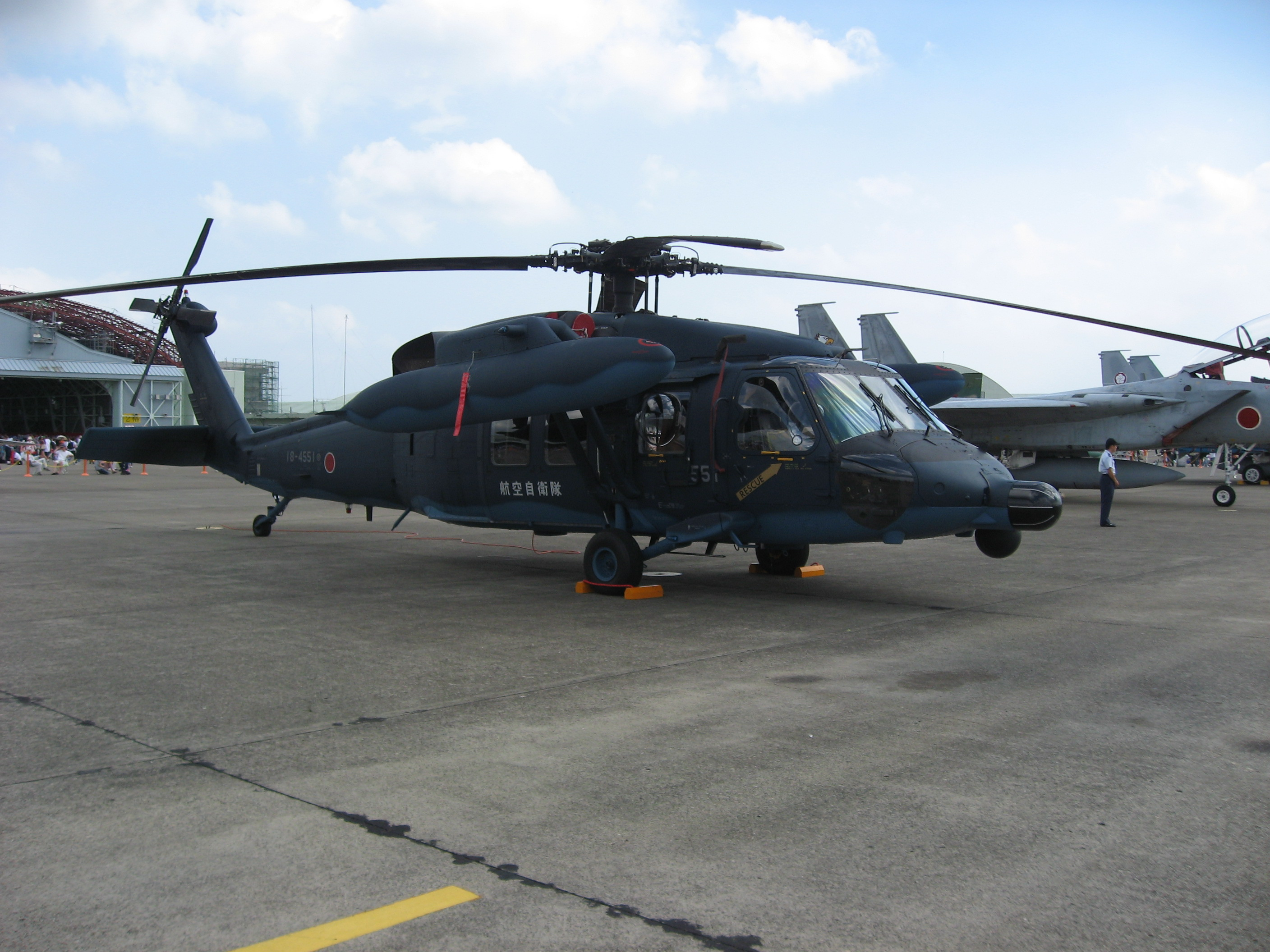 Japan Air Self-Defence Force, UH-60J at the Hyakuri Air Base Airshow 2007.